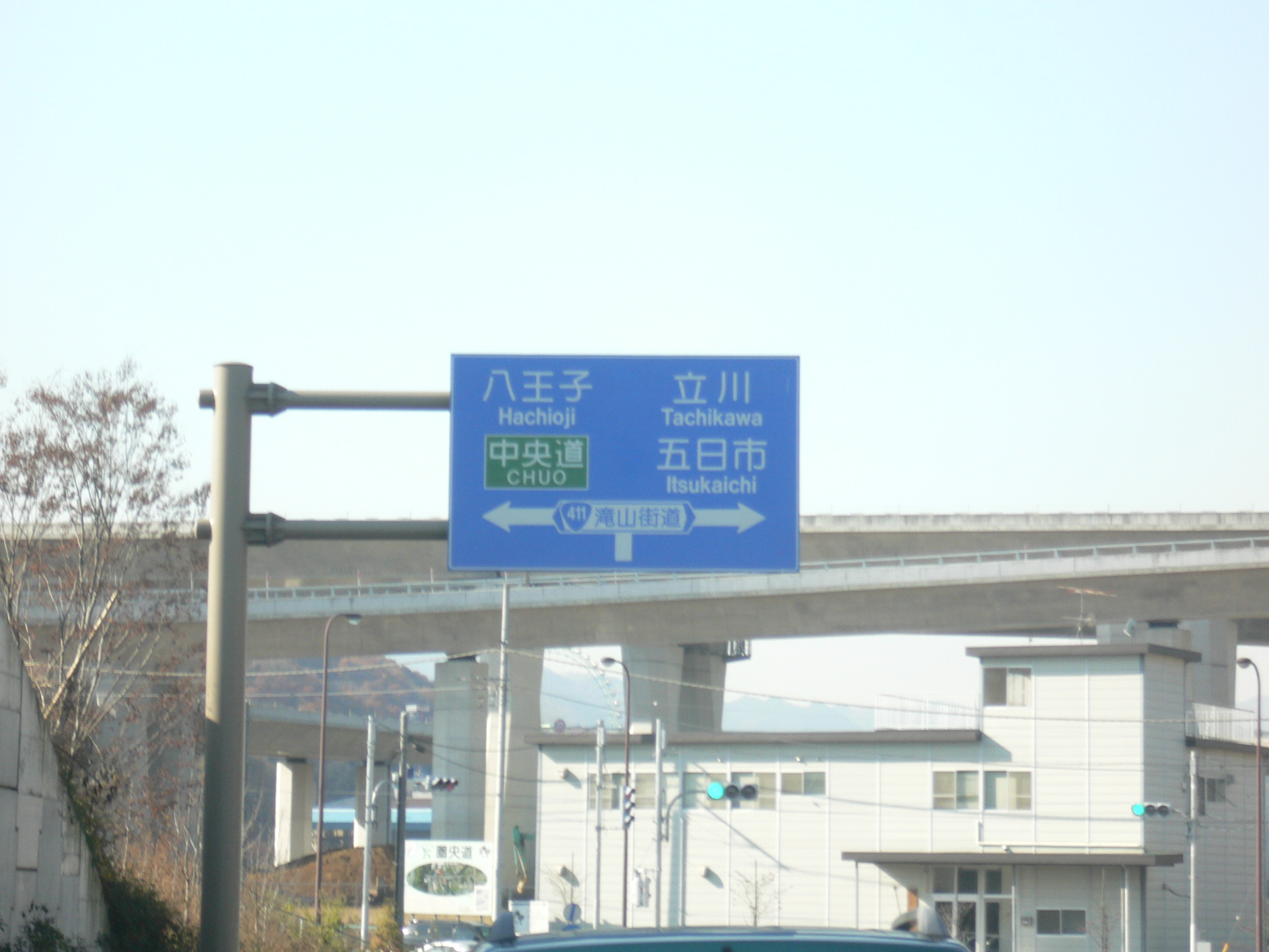 Ken-O Expressway/Iruma IC (首都圏中央連絡自動車道/あきる野インターチェンジ), Akiruno C, Tokyo M.